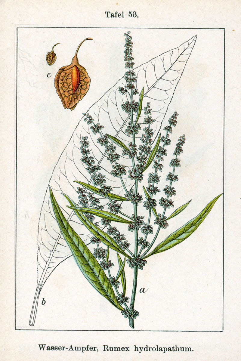 Rumex hydrolapathum Huds. Original Description Wasser-Ampfer, Rumex hydrolapathum